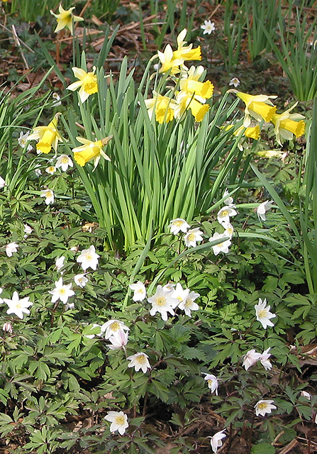 Wild daffodils and wood anemones Winter's almost over. Lots of walkers around in Dymock Woods today enjoying the daffodils and wood anemones.